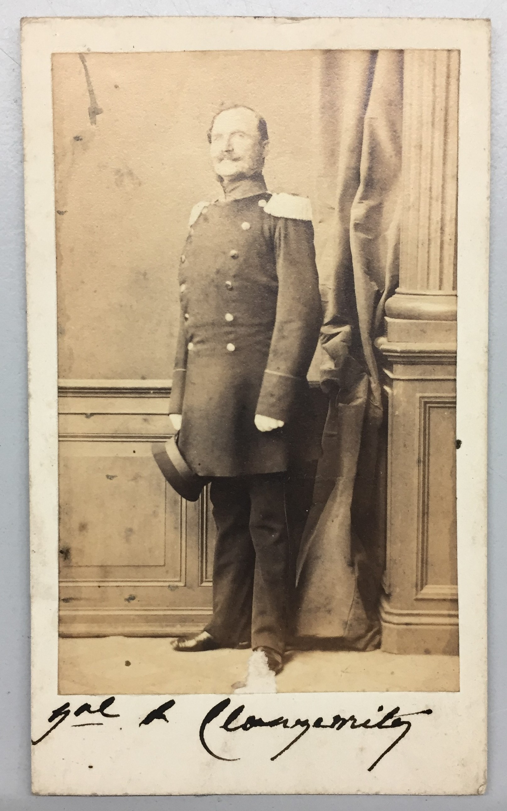 Photo portrait of General [Friedrich] Von Clausewitz.